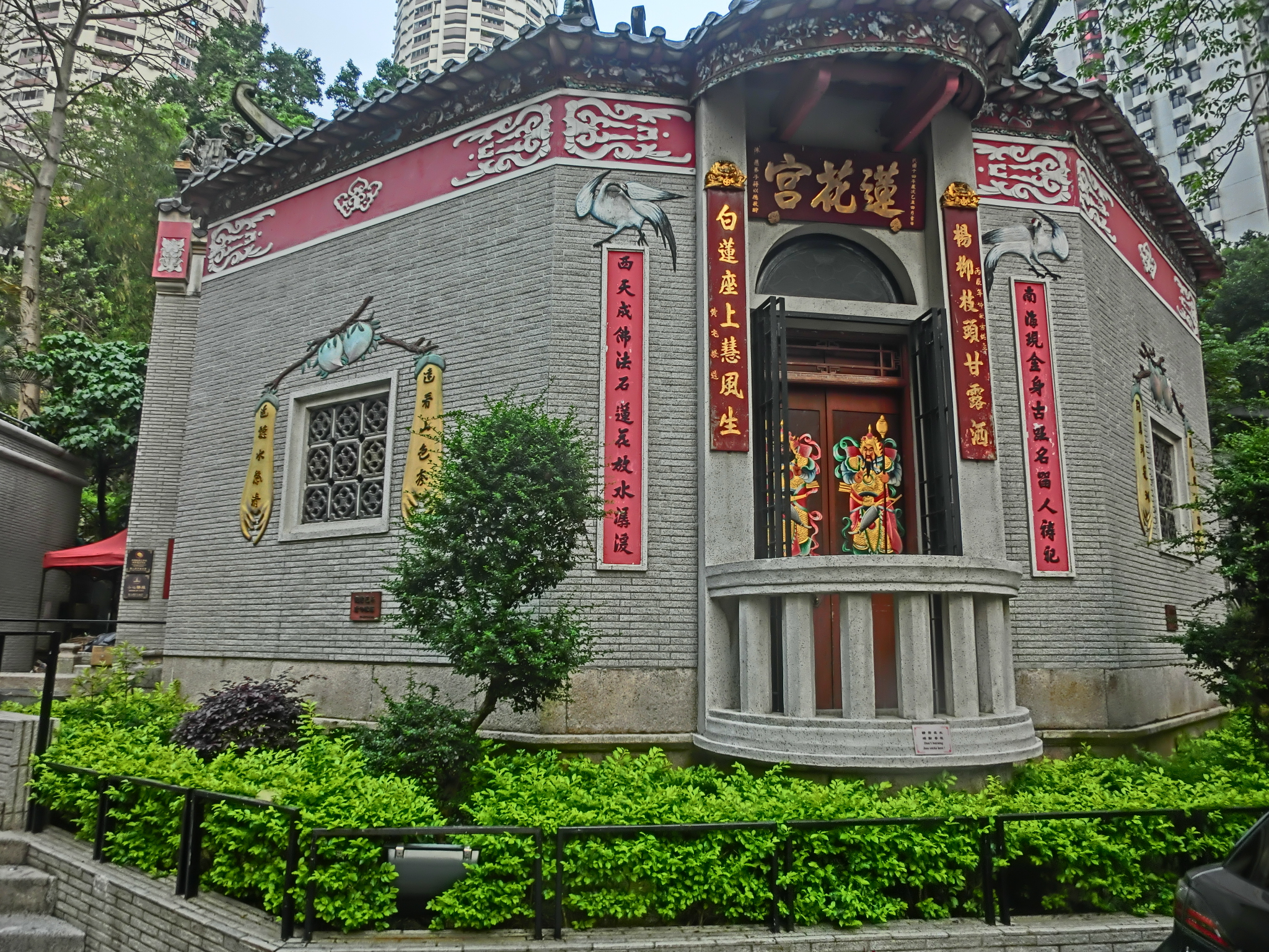 大坑 蓮花宮, Lin Fa Kung temple, Tai Hang